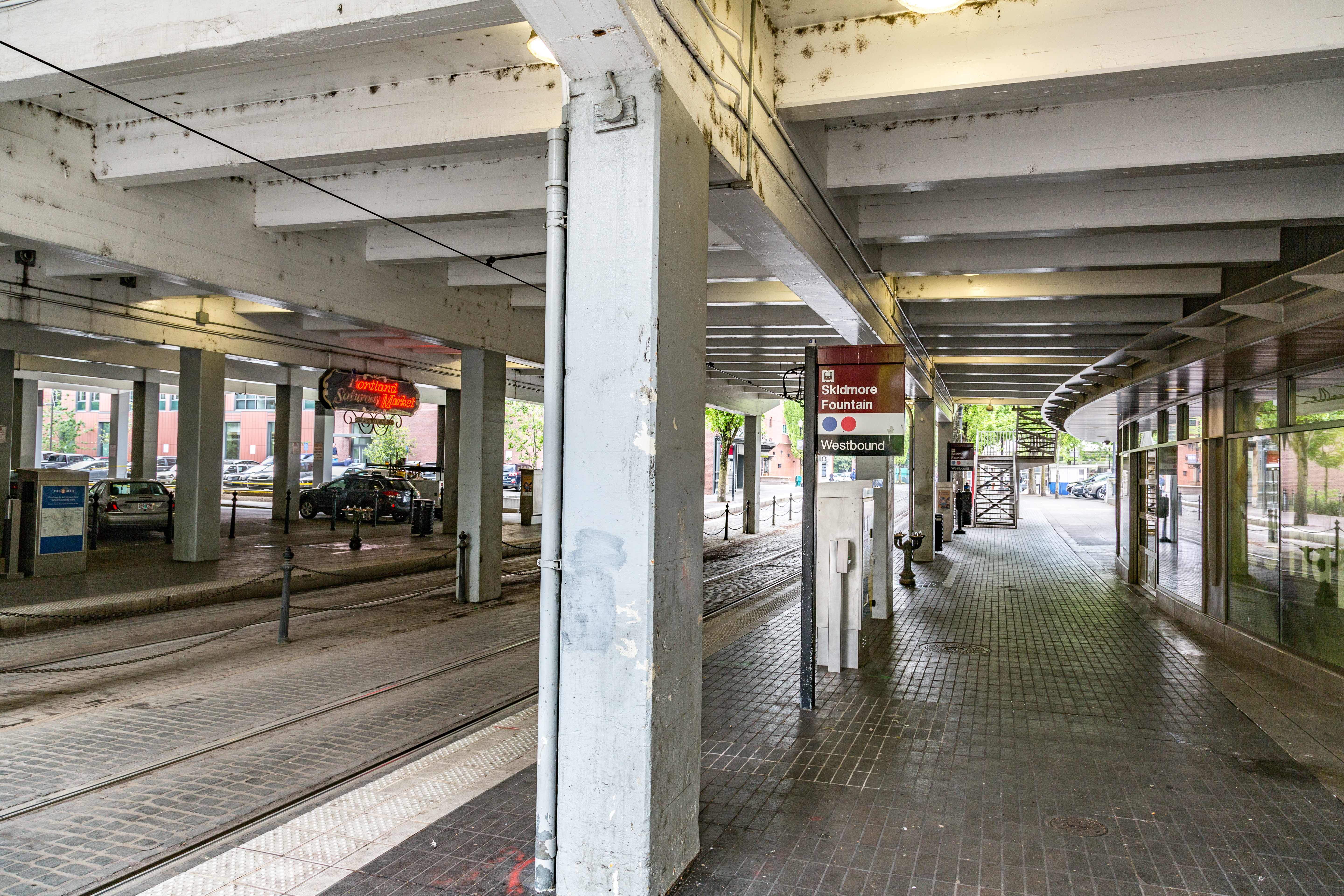 The TriMet Skidmore Fountain MAX light rail station under Burnside Avenue in Portland, Oregon